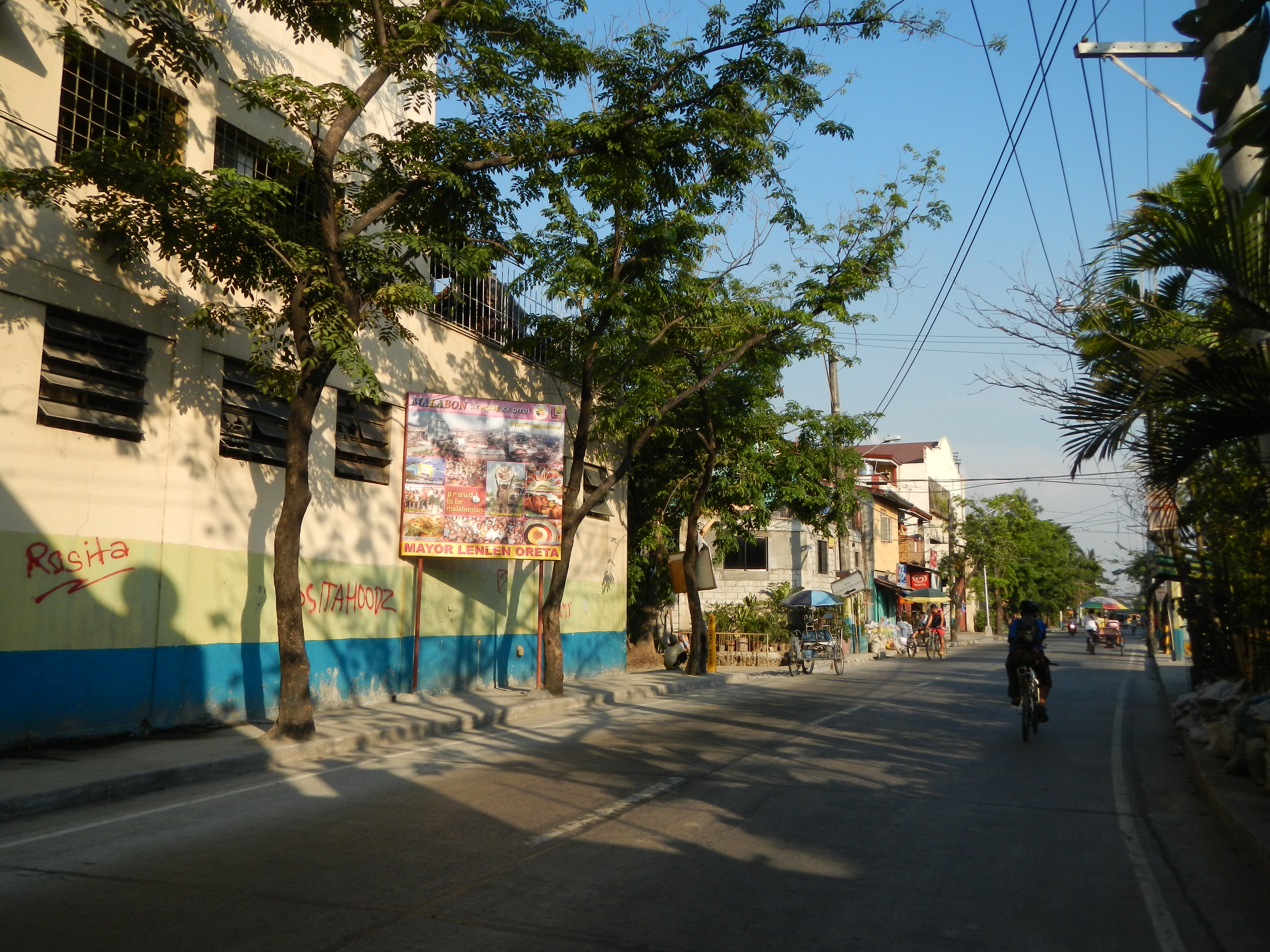 Palasan, Valenzuela Hall, Compound Complex Covered Court Barangay Centro or Proper Chapel beside Poblacion, Valenzuela to Polo, Valenzuela, beside Tinajero and Maysilo, Malabon City, Metro Manila.